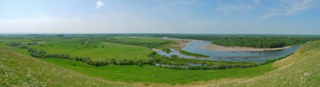 Kiya River near the village of Shestakovo, Chebulinsky District, Kemerovo Oblast, Russia